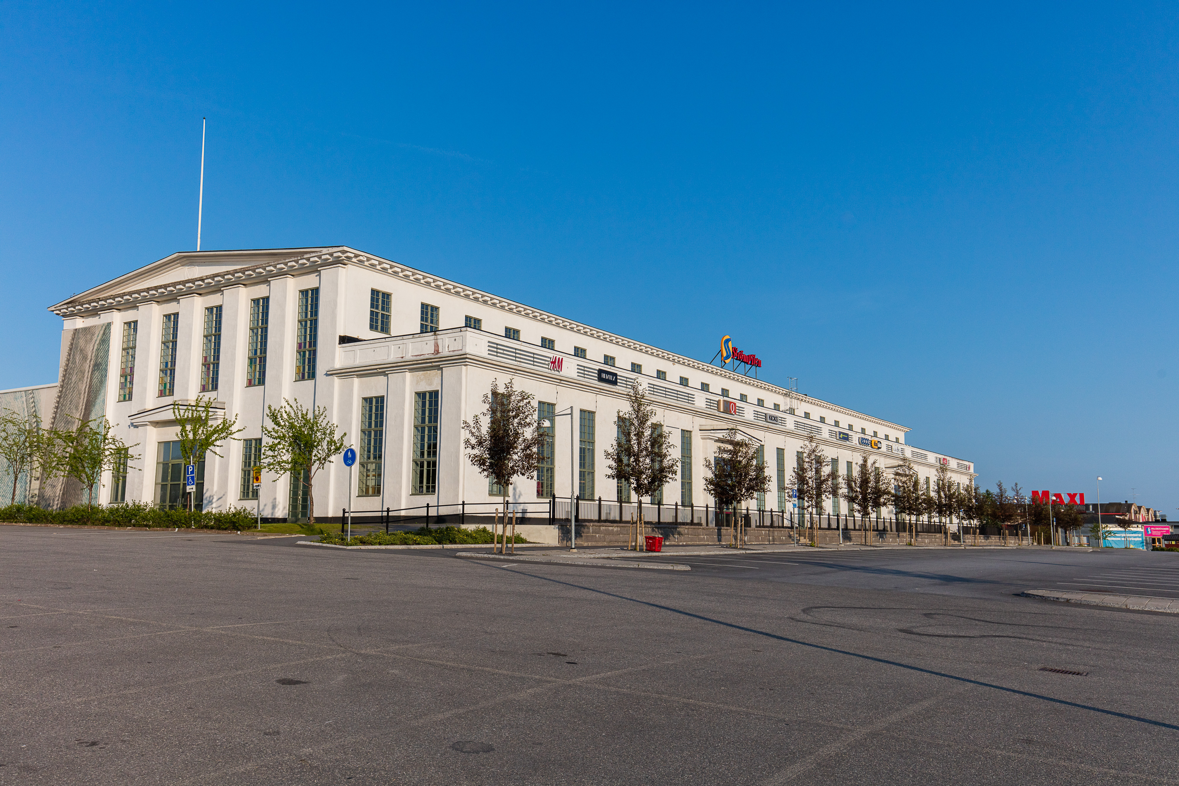 Strömpilens träsliperi was built for the early 20th century pulp industry but is today integrated with the Strömpilen shopping mall.